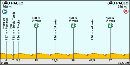 Profile of the 8th stage of the 2014 Volta Ciclística de São Paulo